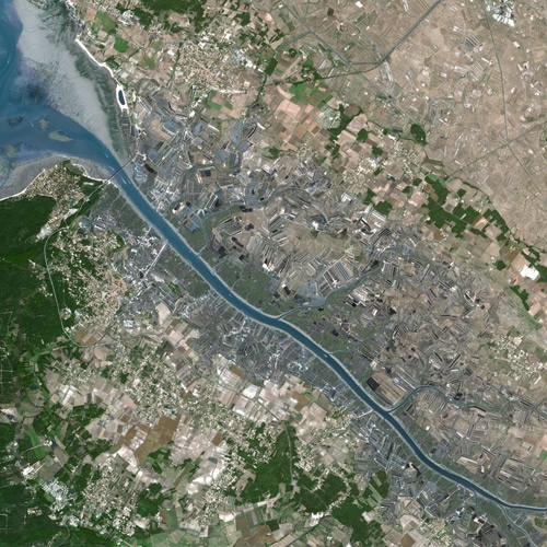 Marennes Oleron by SPOT Satellite